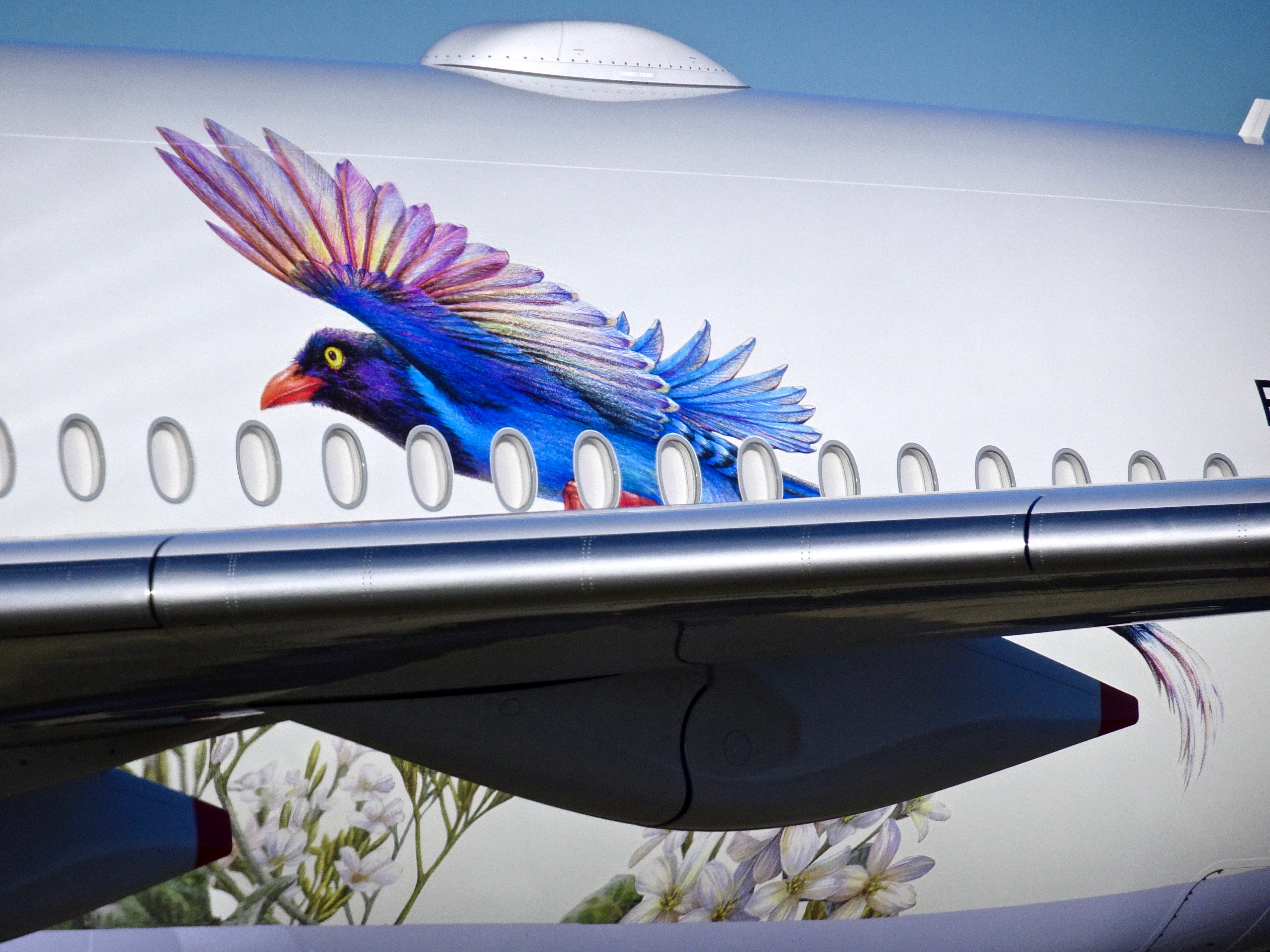 China Airlines Taiwan Blue Magpie Livery close-up